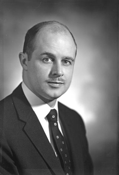 Senator Andy Hess, 1957